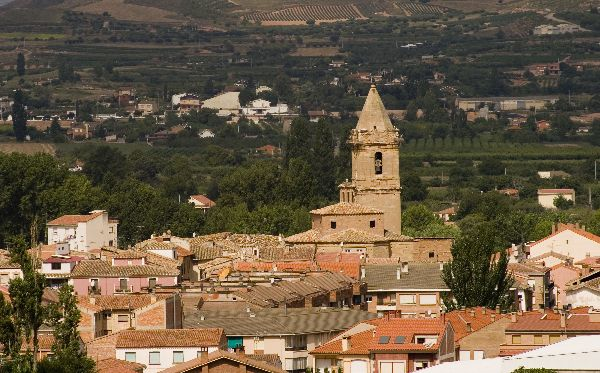 General view of Alberite, municipality in La Rioja, Spain.